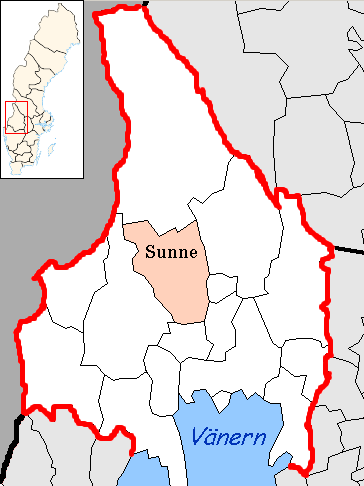 Sunne Municipality in Värmland County Designd by me, based on Image:Värmland County.png